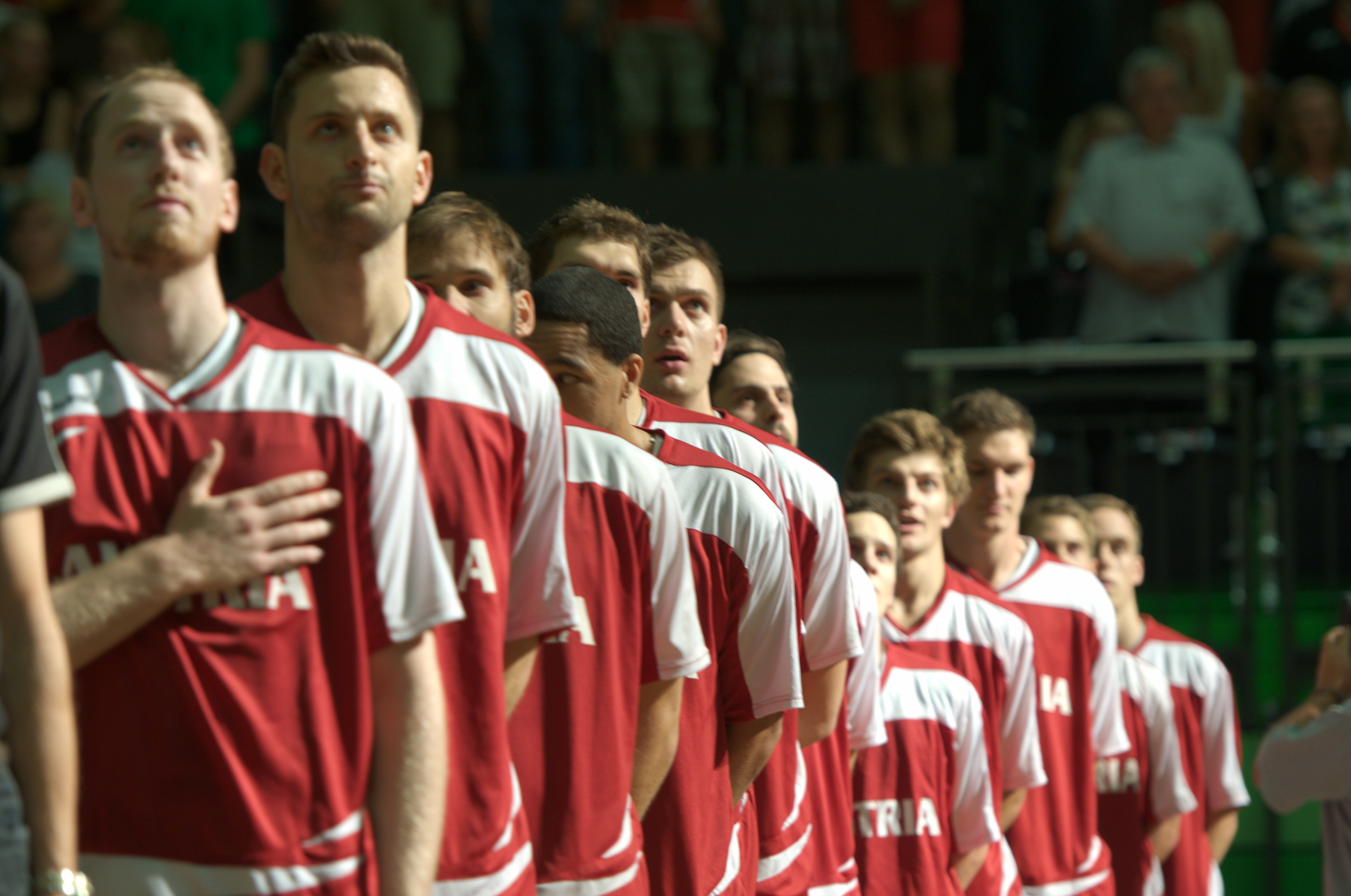 Austria national basketball team versus Croatia in 2012.